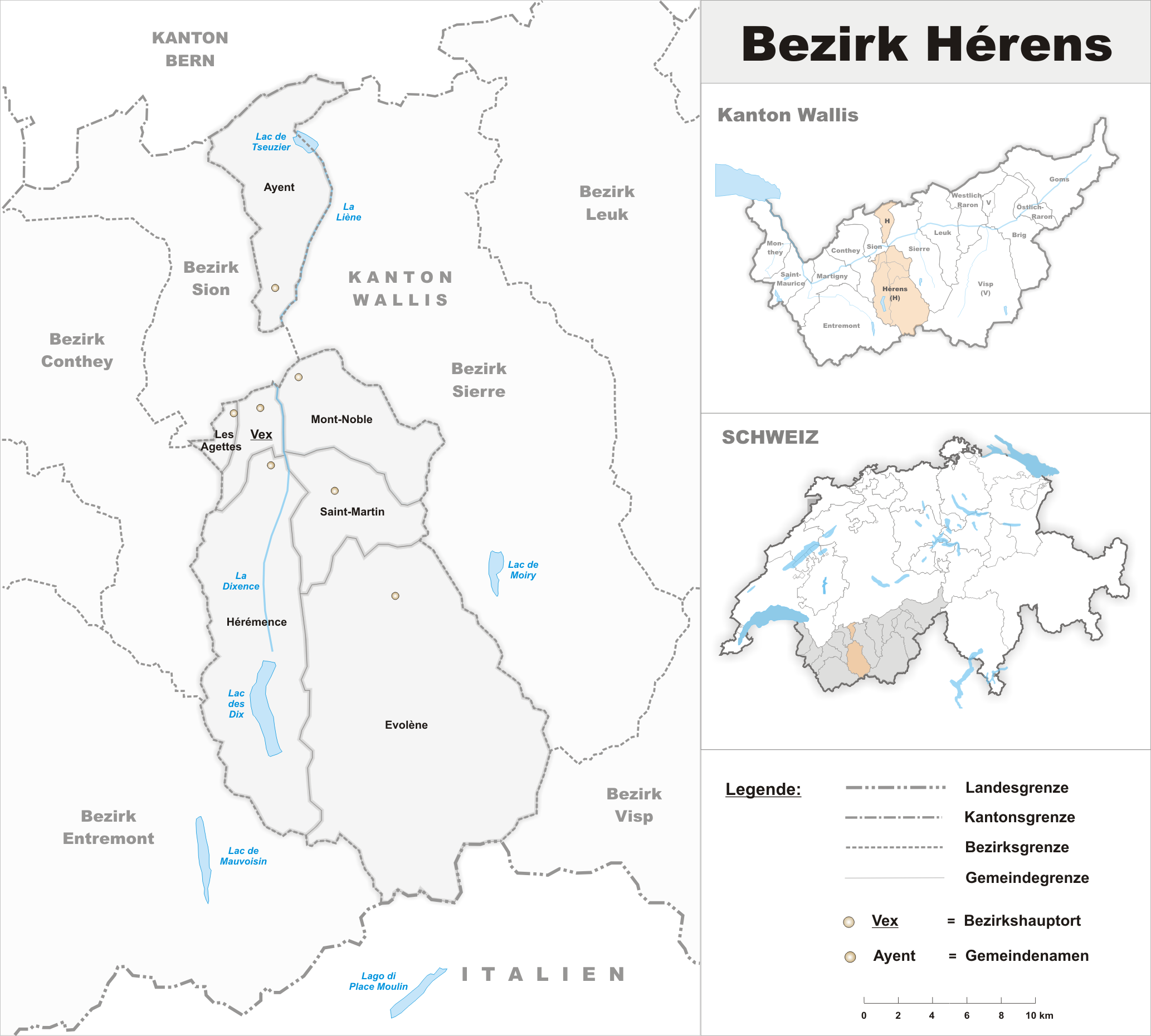 Municipalities in the district of Hérens